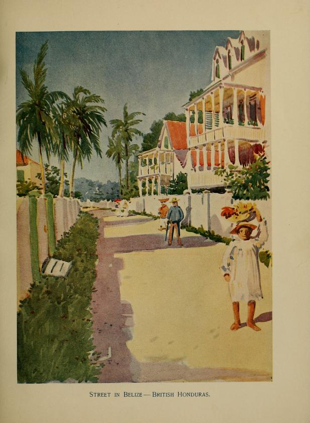 Street in Belize / British Honduras according to Henry Robertson Blaney.